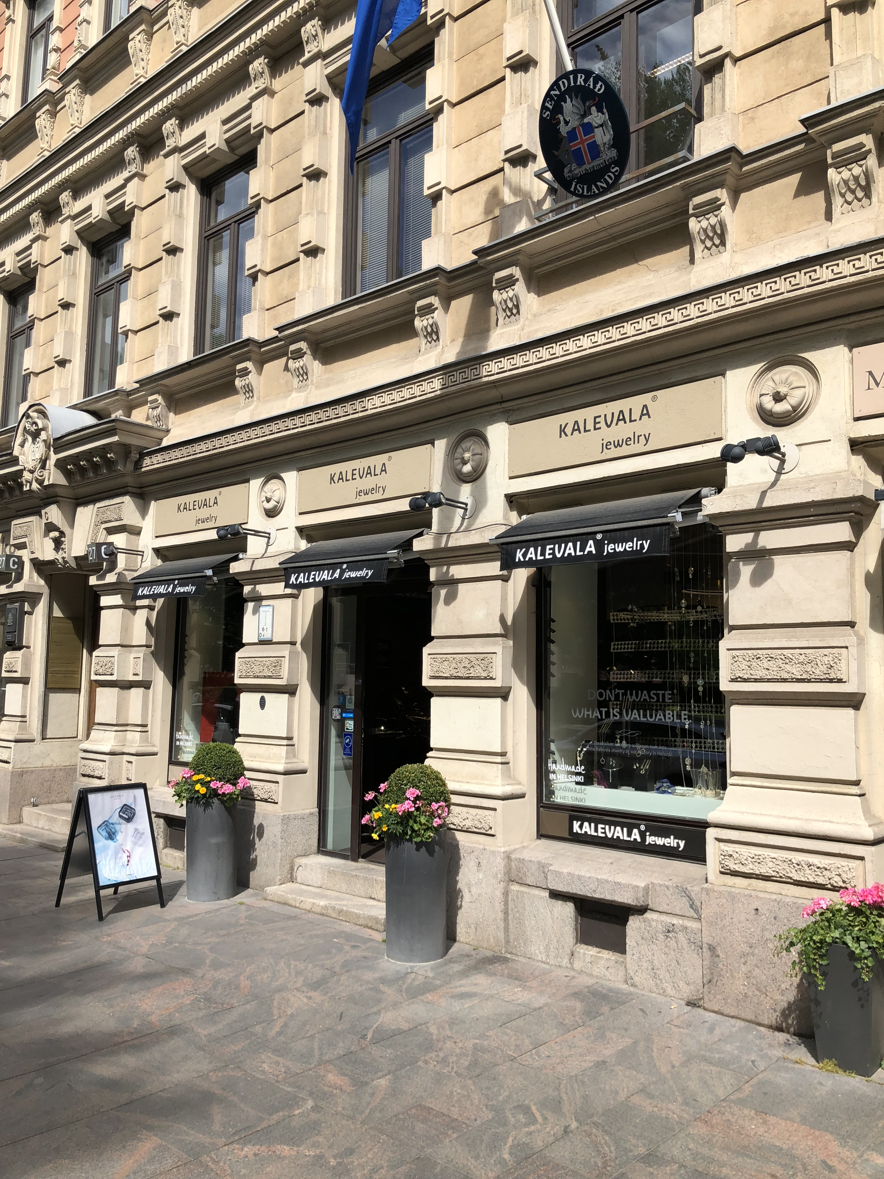 Kalevala Jewelry Store at Pohjoisesplanadi Helsinki, Finland